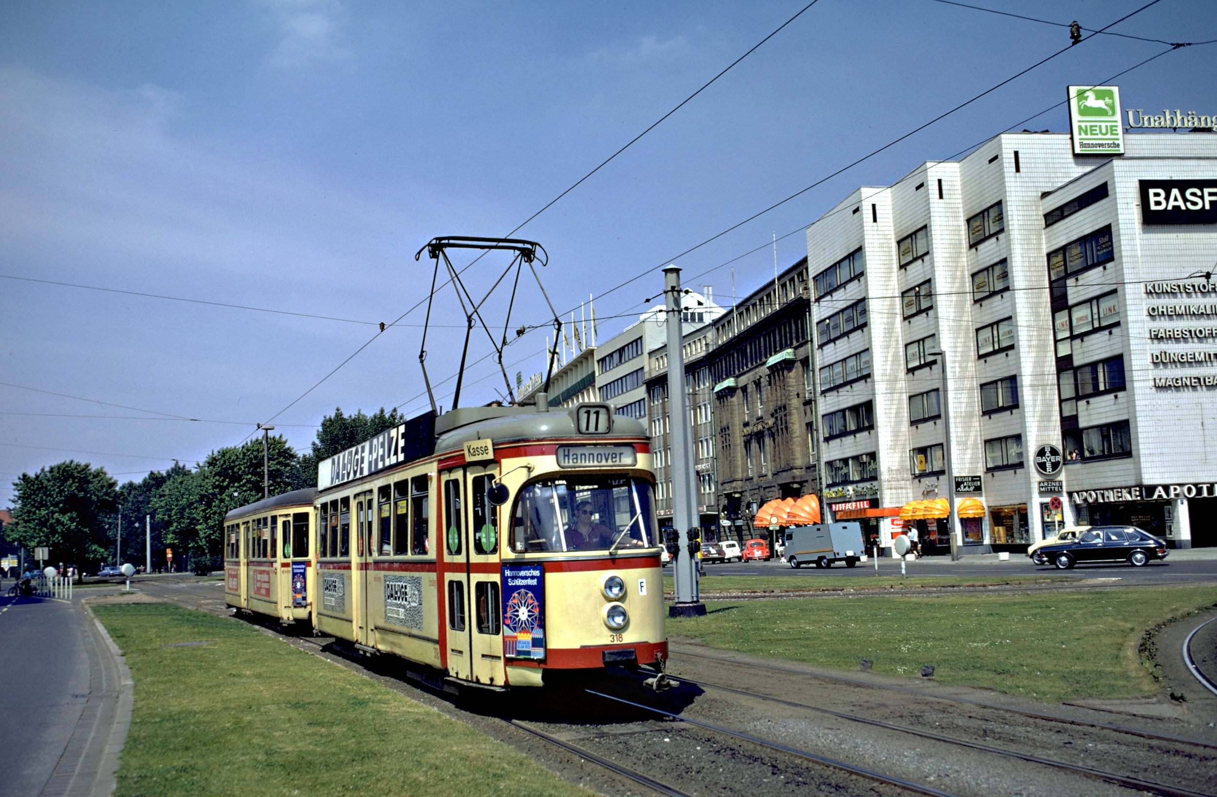 Tram in Hannover